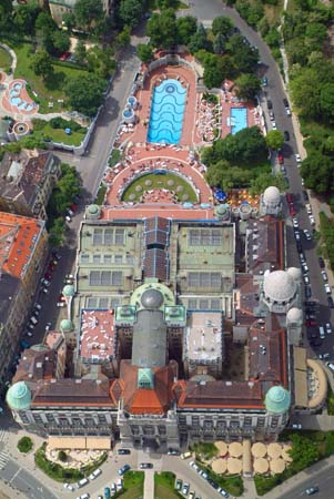 St. Gellért Square, Budapest, Hungary, aerial photography